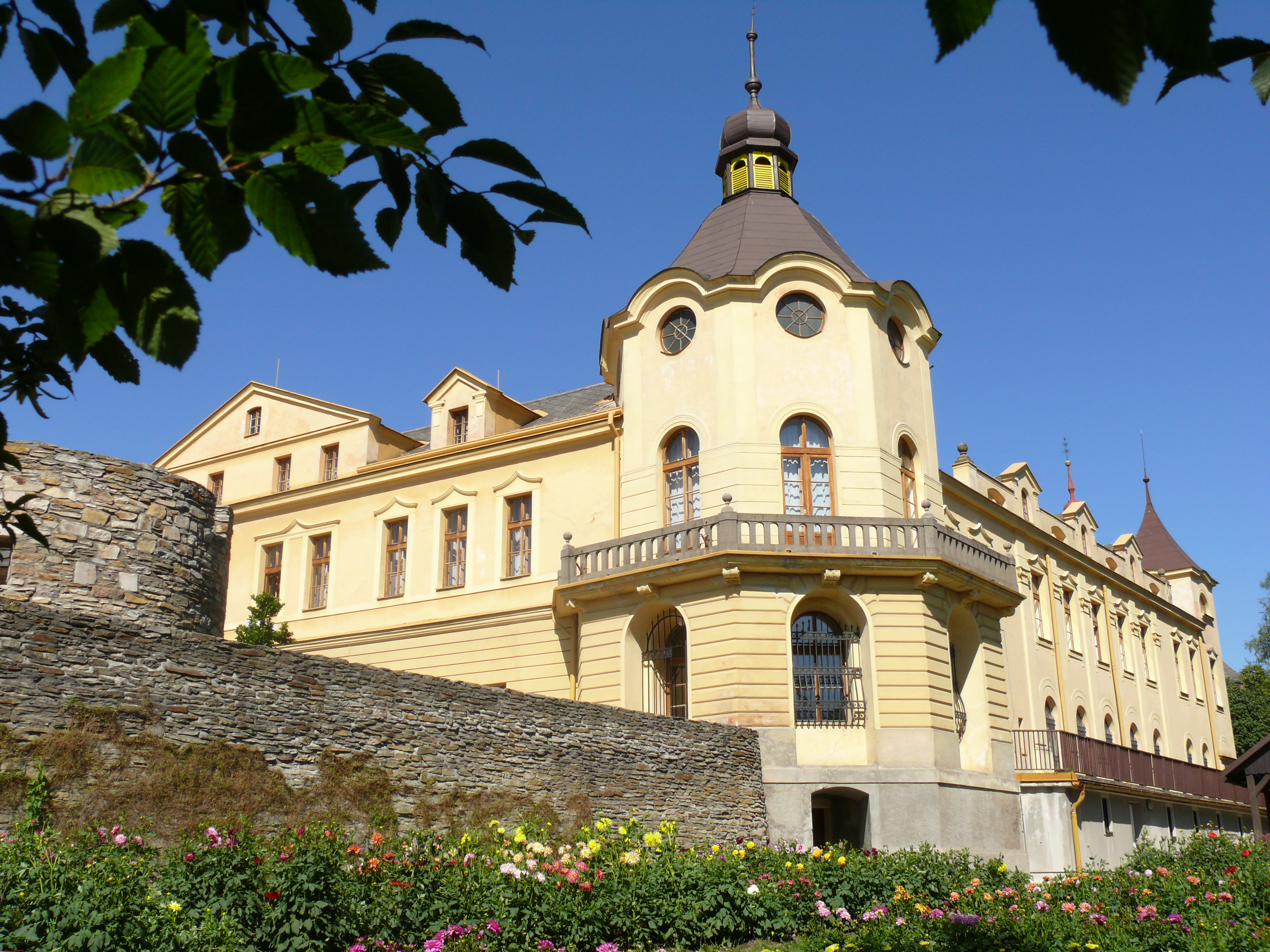 Chateau in Ceska Skalice, other exhibition of Museum of Decorative Arts in Prague